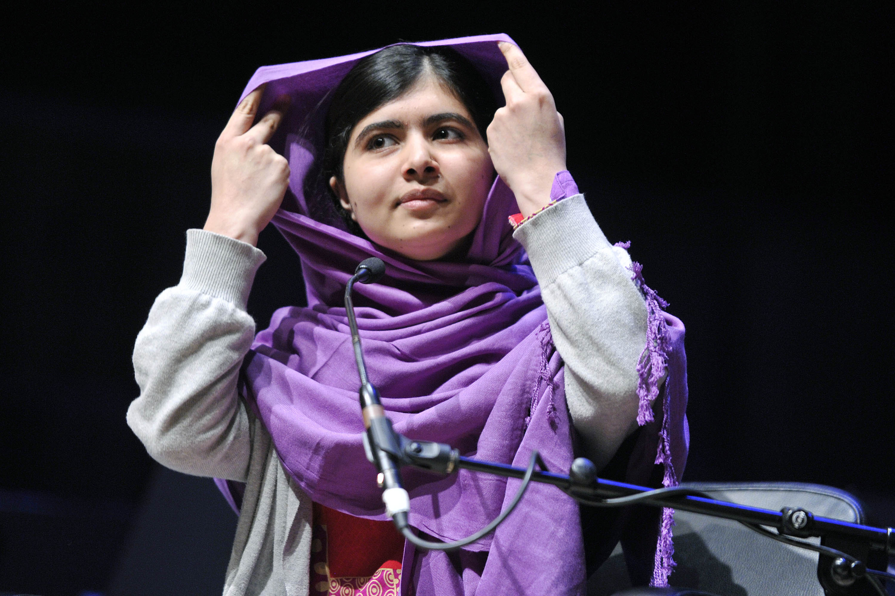 Malala Yousafzai is a campaigner who in 2012 was shot for her activist work. As part of WOW 2014, she talks about the systemic nature of gender inequality and bringing about change. More on this event